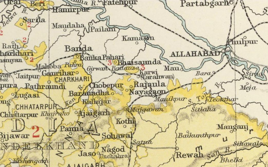 1909 Imperial Gazetteer of India Central India map section